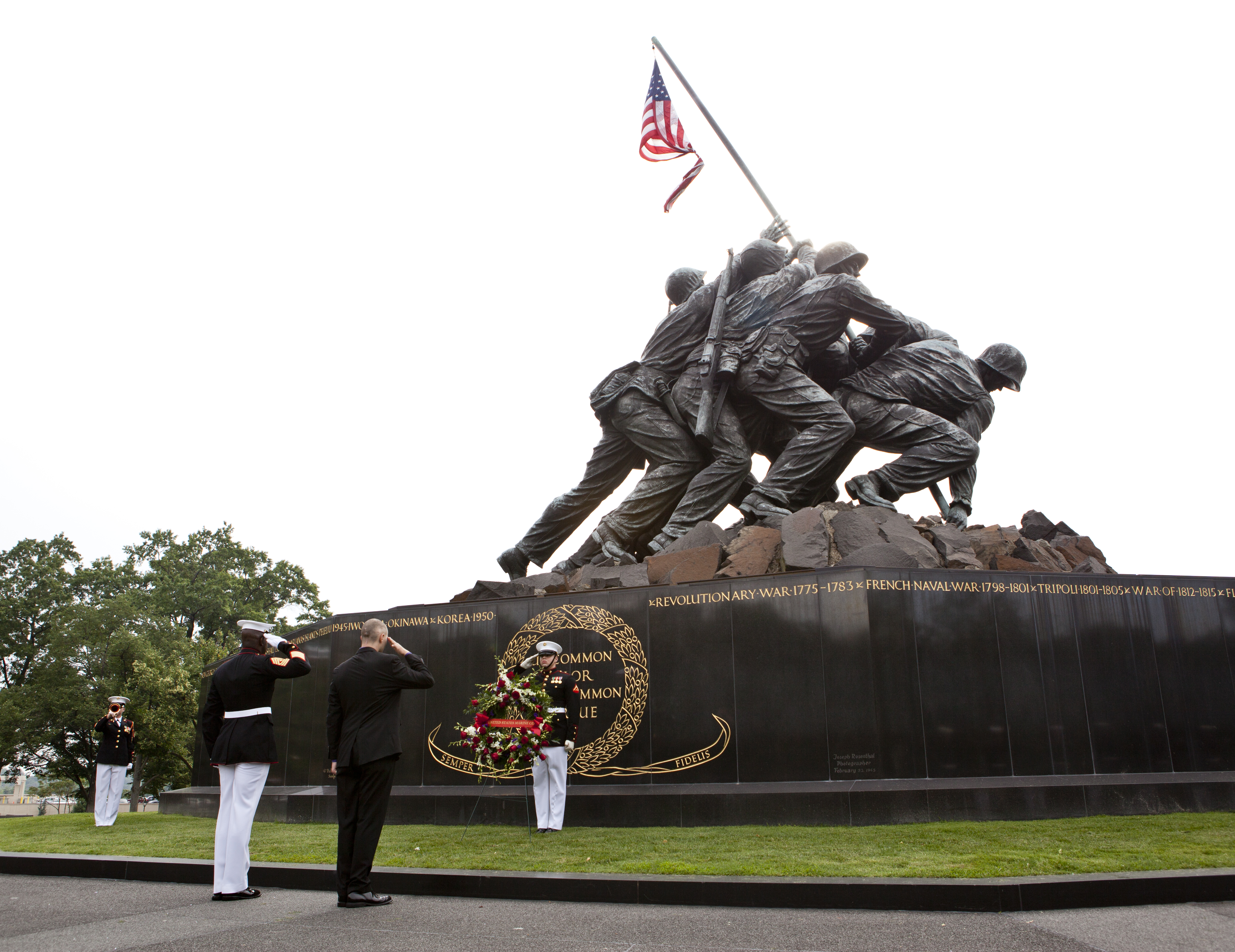 Honorary Marine Daran Wankum, third from left, salutes during a wreath laying ceremony at the Marine Corps War Memorial in Arlington, Va, June 13, 2013. Wankum, who began the Marine enlistment process but was unable to start recruit training due to an illness, was recognized as the 22nd honorary Marine during a ceremony June 11, 2013.